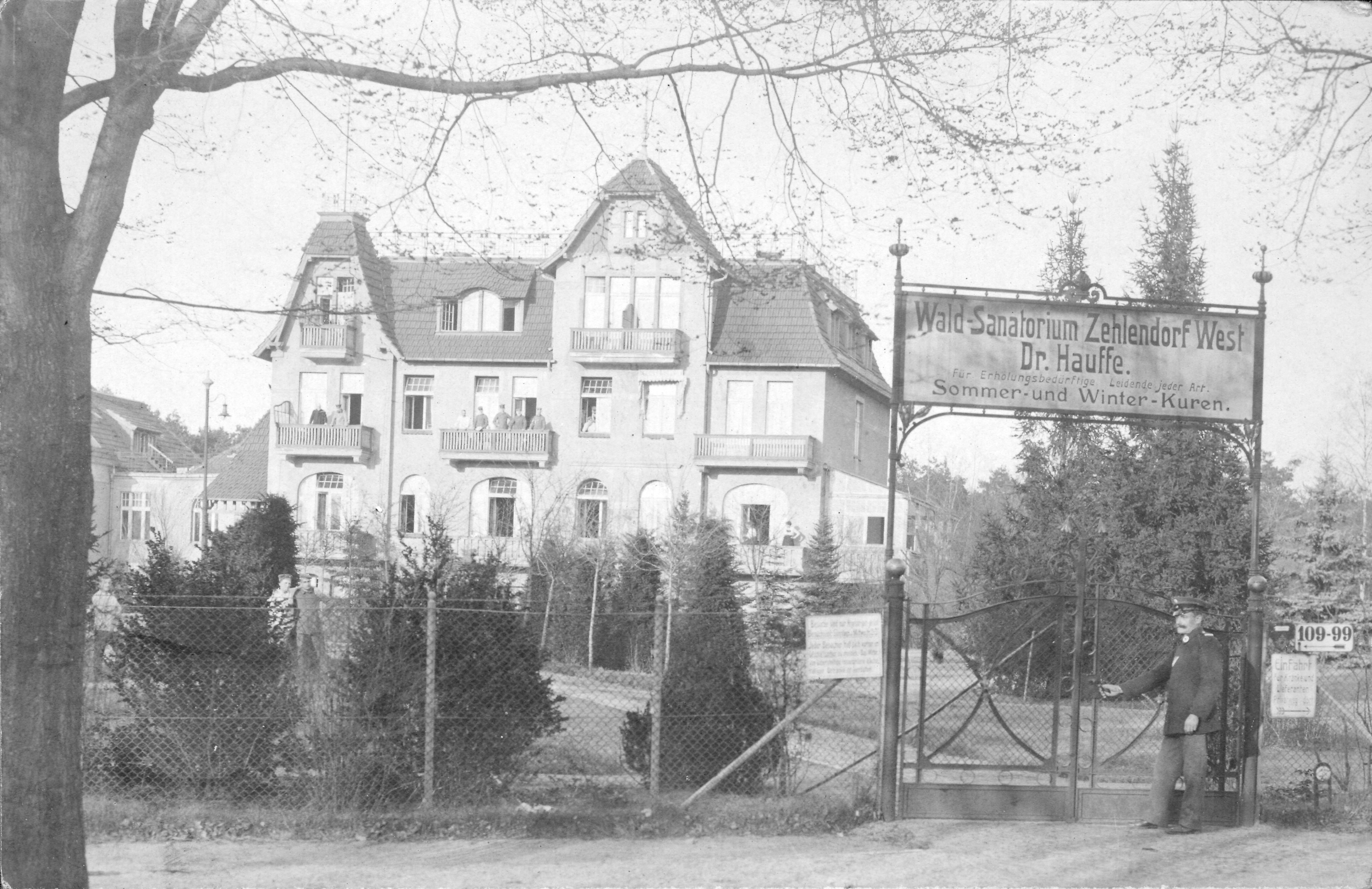 Waldsanatorium Zehlendorf-West, Berlin-Zehlendorf. Alsenstraße 99-109